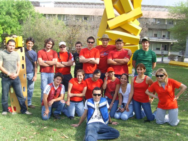 BrigaMed UDEM in front of Entropy at UDEM.